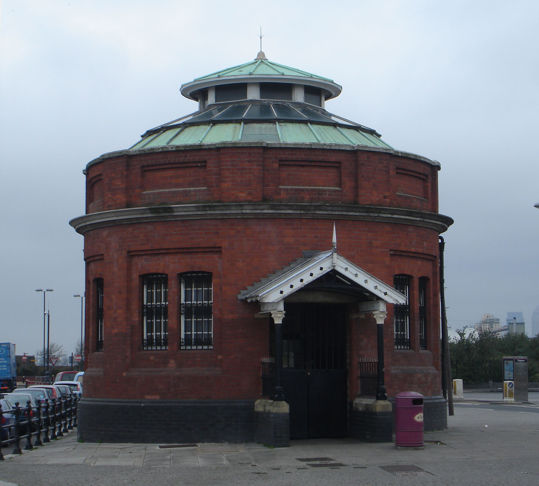 North entrance to Woolwich Foot Tunnel, London, UK. Photo taken by me 19:22, 21 April 2006 (UTC)